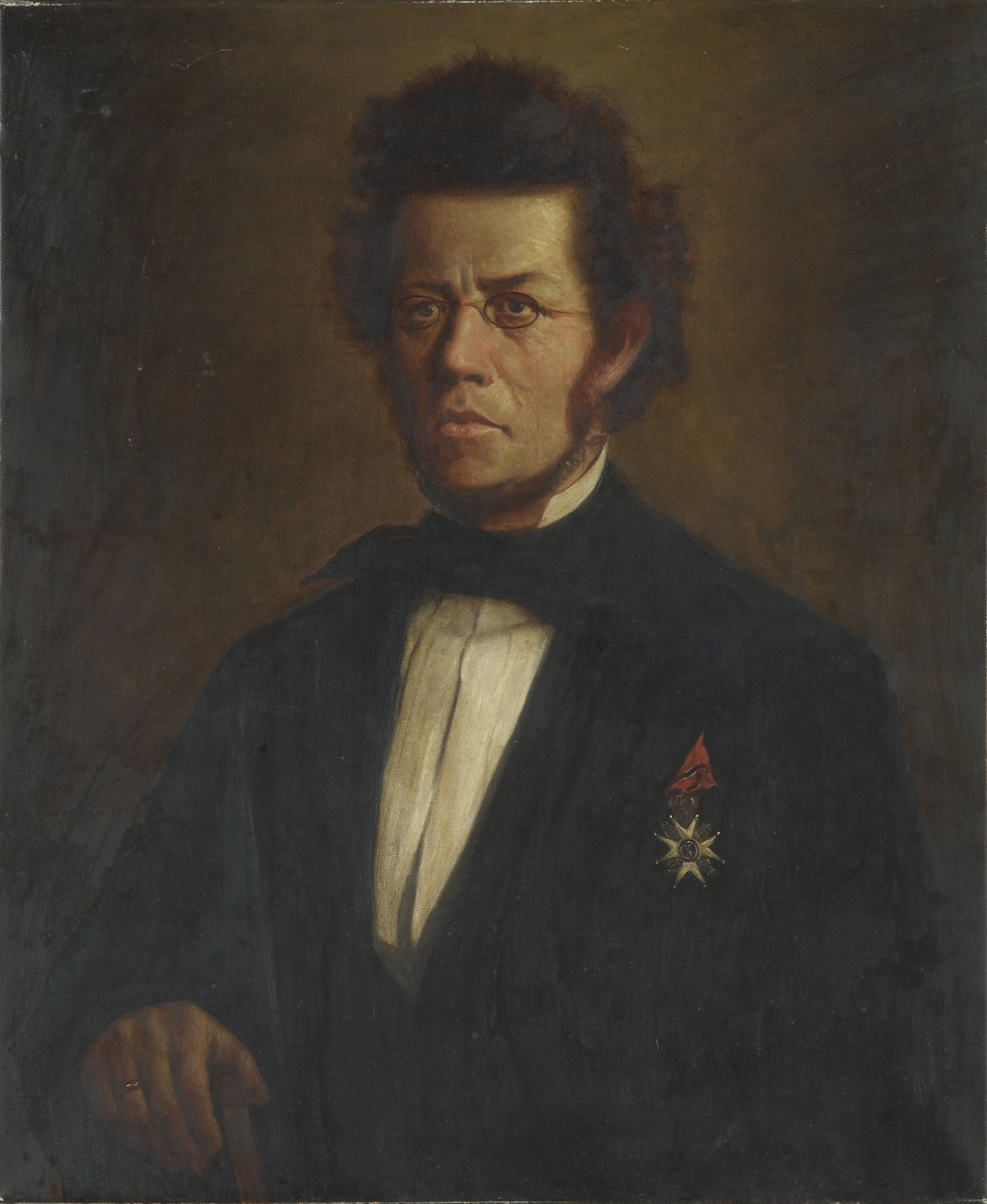 Eilert Sundt. Painting by Thyge Matthiasen, copy after Knud Bergslien.